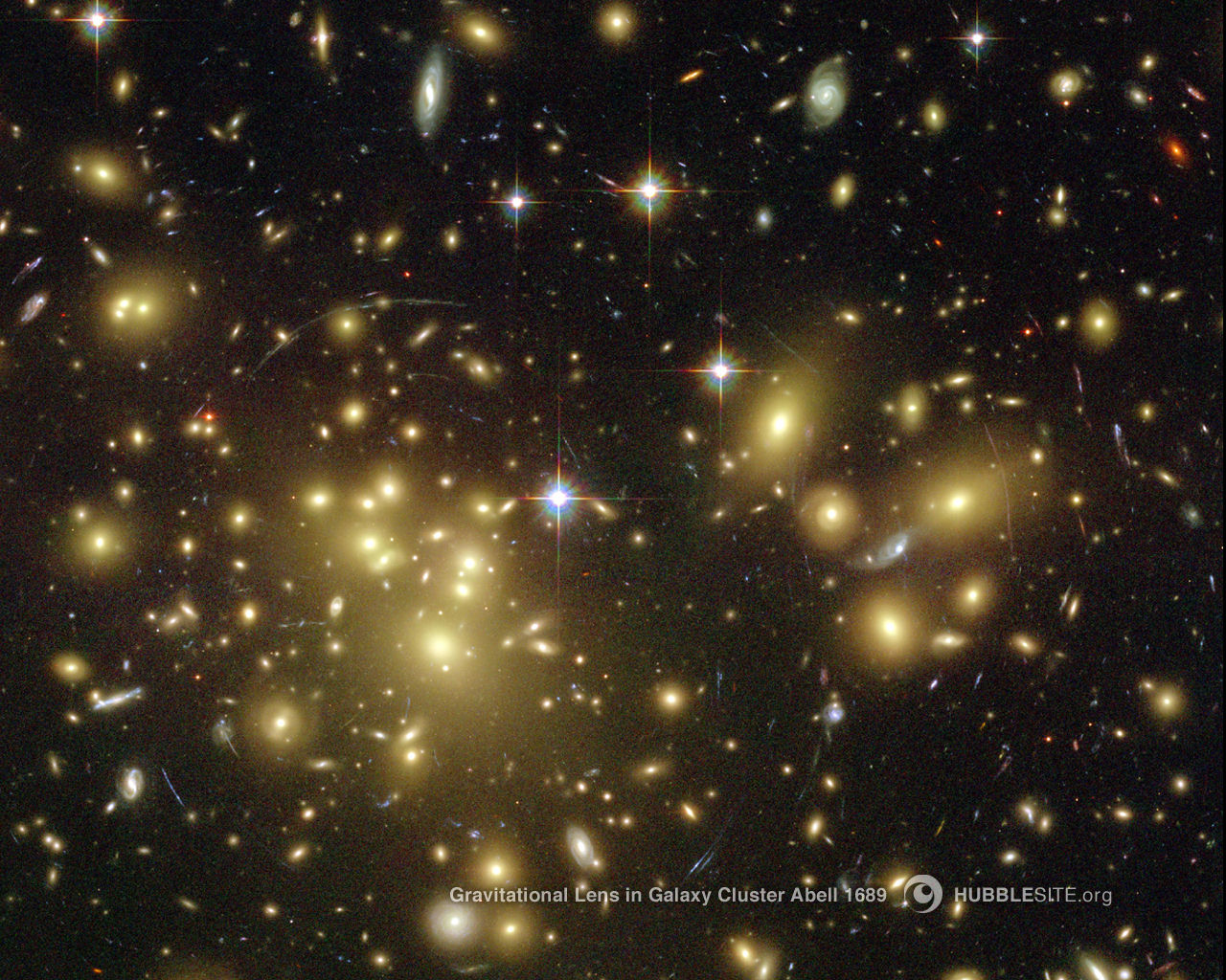 Galaxy Abell 1689's "Gravitational Lens" Magnifies Light of Distant Galaxies.